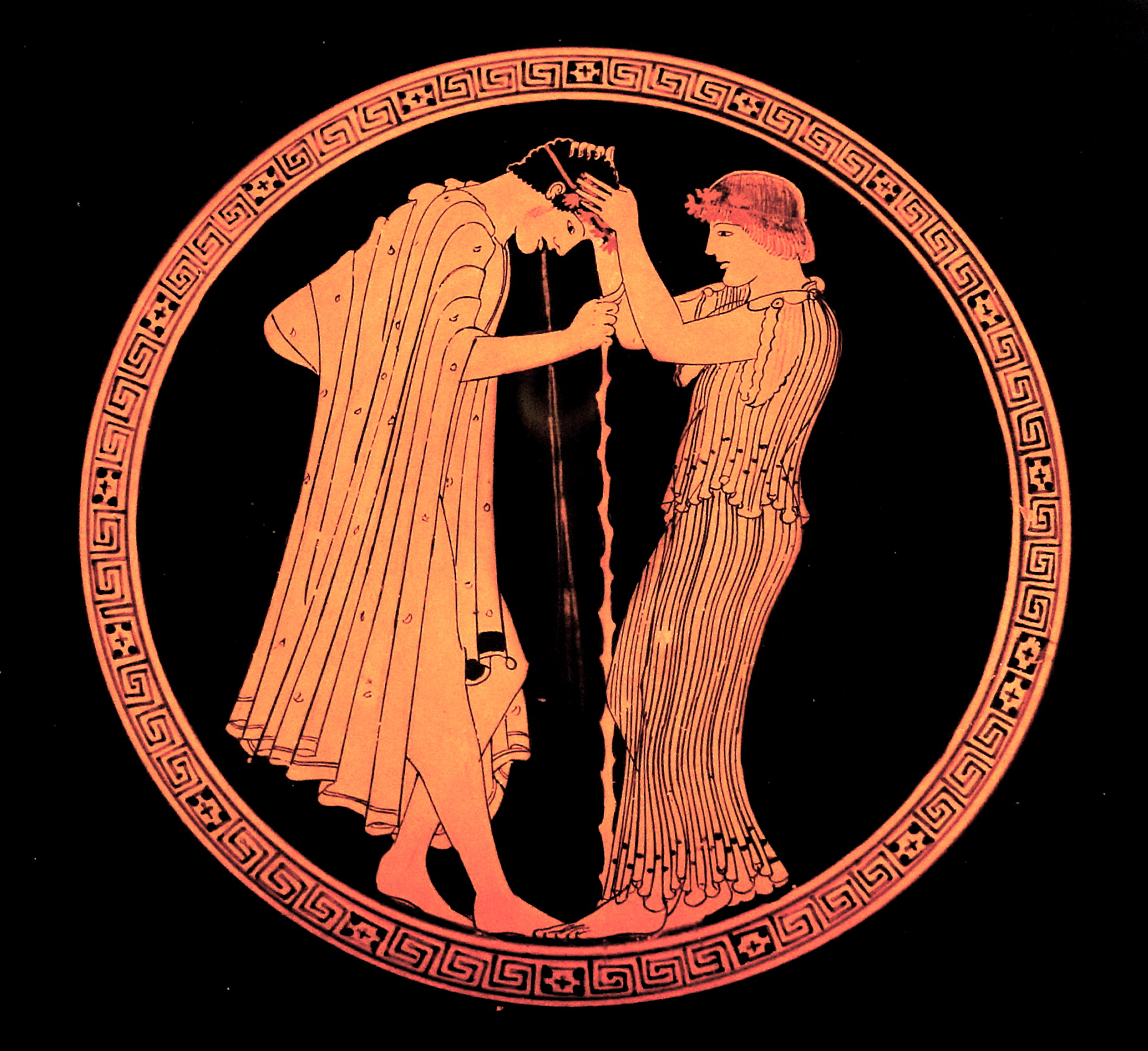 Exhibit in the Martin von Wagner Museum - Würzburg, Germany.